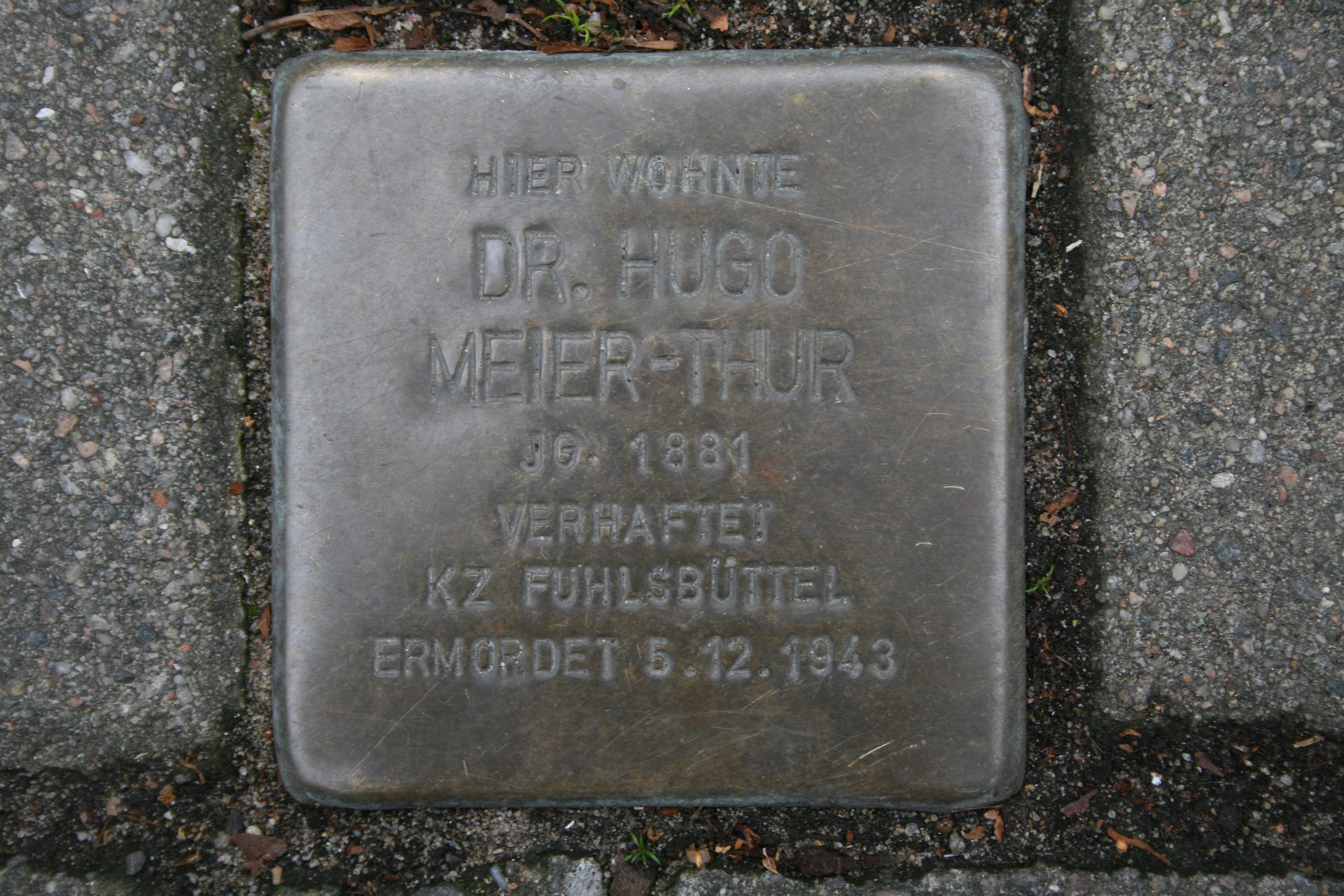 Stolperstein for Hugo Meier-Thur located in front of his last apartment in Wagnerstraße 72, (today Wagnerstraße 60, a school for social pedagogy)